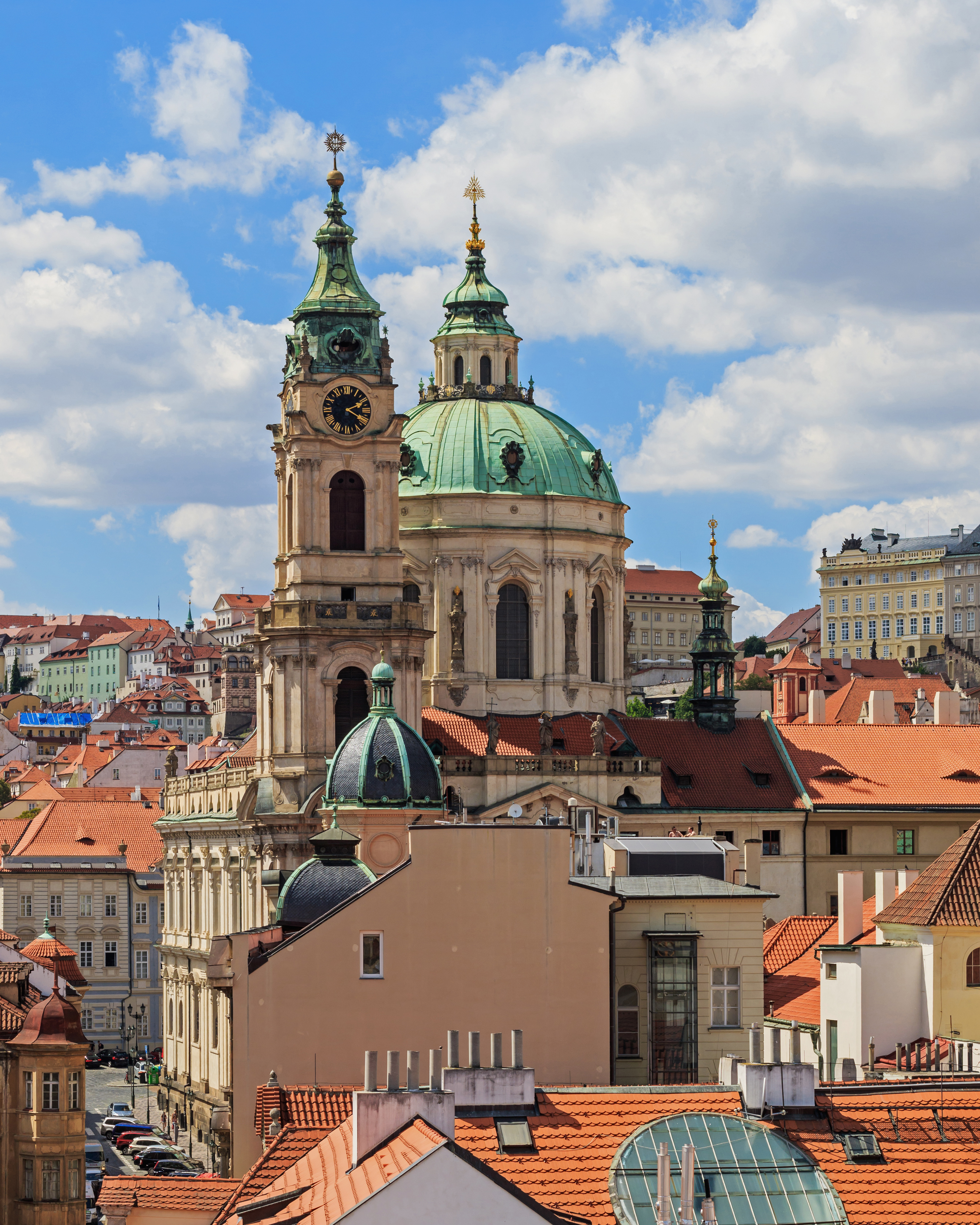 View from the Lesser Town tower of Charles Bridge in Prague (Czech Republic)